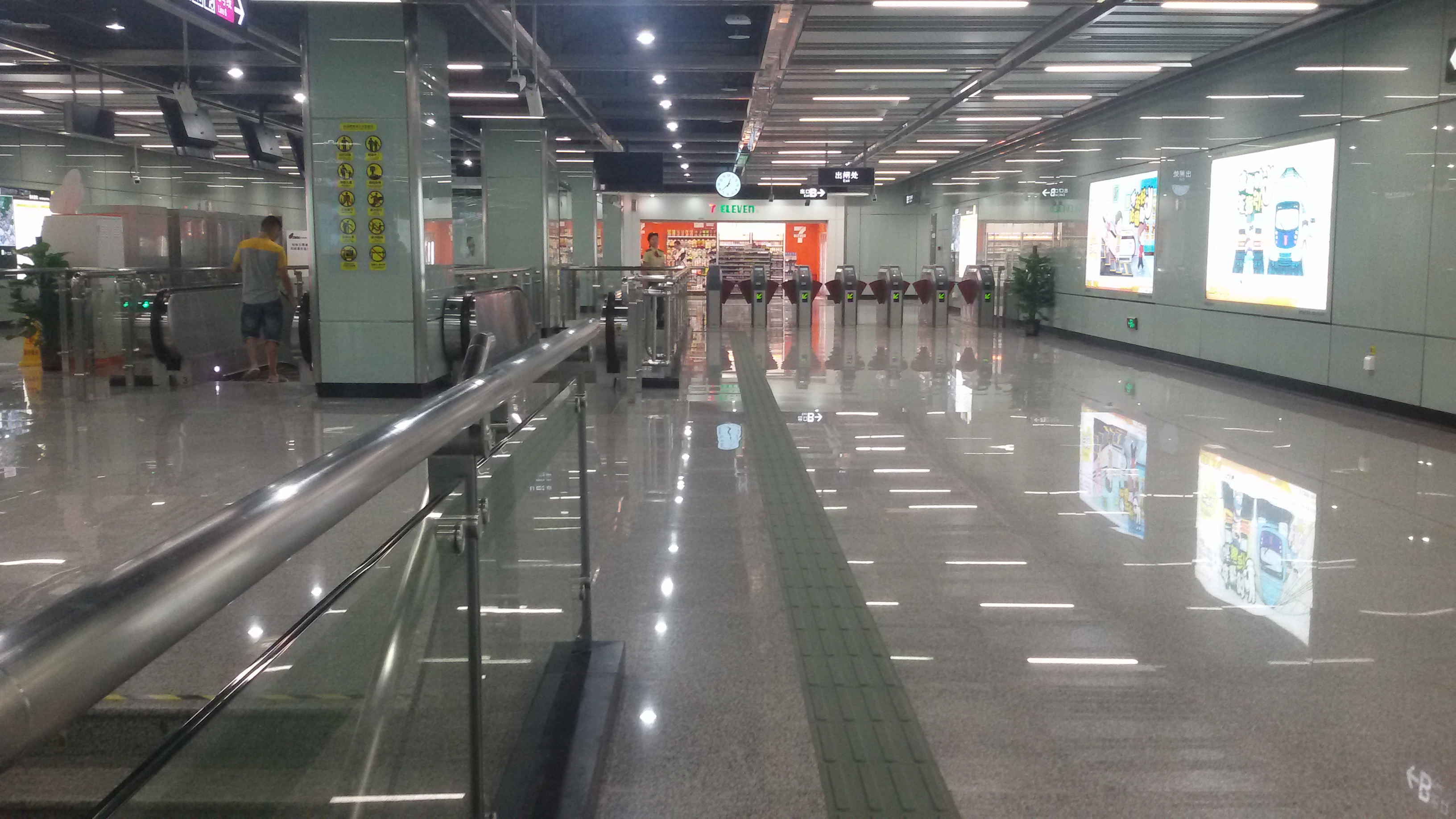 粵語: 廣州地鐵，柯木塱站嘅站廳。